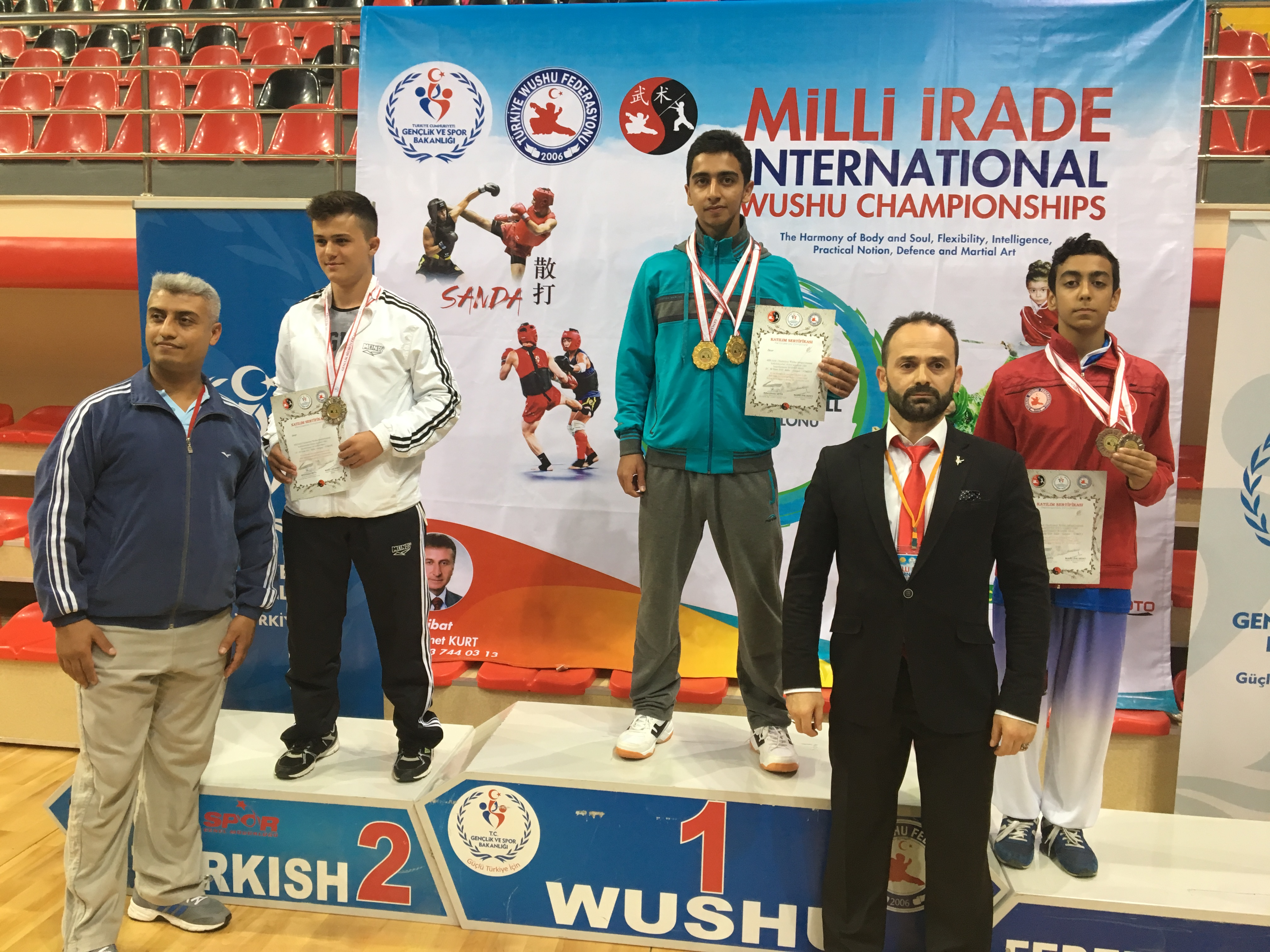 World Championship and Gold Medal at Samson / Turkey World Championships